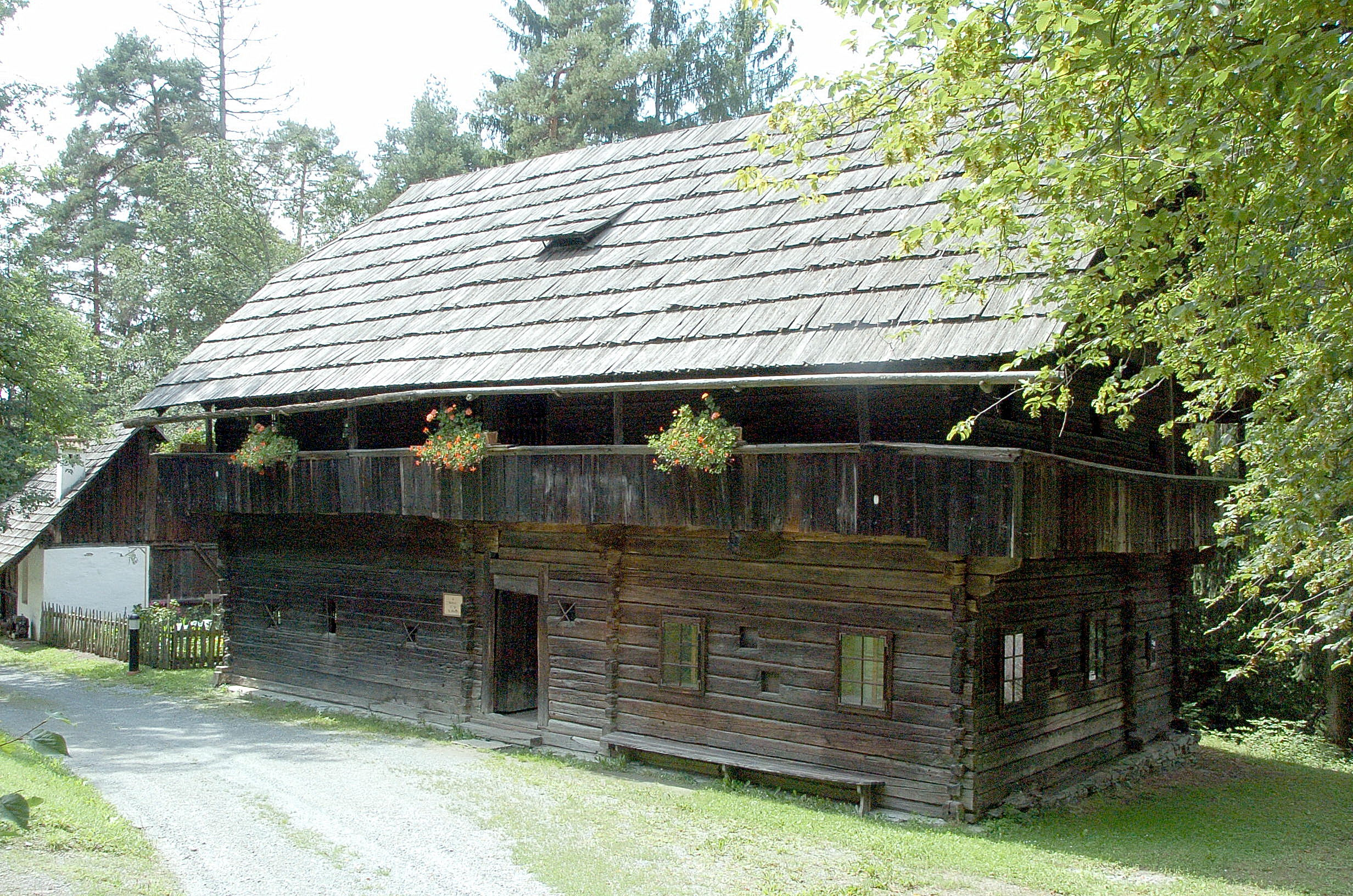 Bodner farmhouse from Saint Oswald from the 17th century, open air museum on Museumweg in Maria Saal, municipality Maria Saal, district Klagenfurt Land, Carinthia, Austria